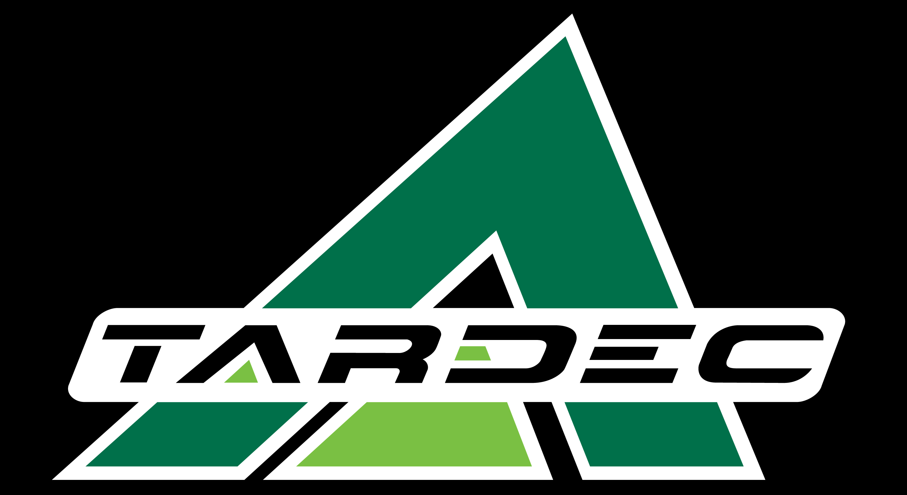 Official logo of U.S. Army TARDEC